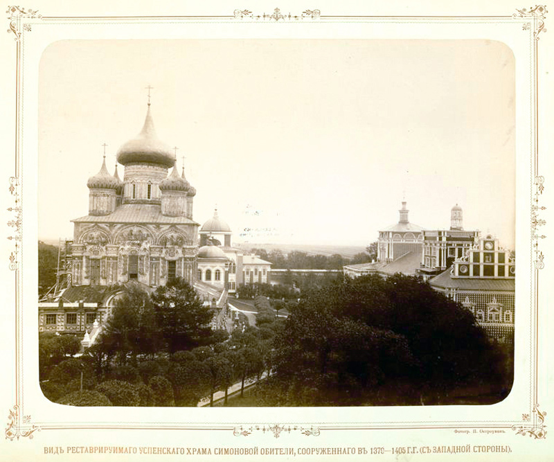 Uspensky Cathedral in Simonov Monastery (Симонов монастырь) in Moscow)